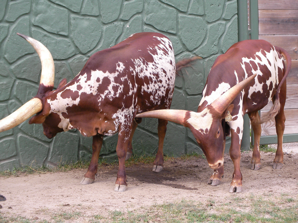 Watusi cattle at Racine Zoo, Wisconsin, USA.